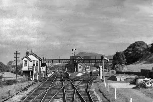 Buttington Station. View NE, towards Shrewsbury; ex-Great Western & London & North Western Joint, Shrewsbury - Welshpool secondary main line, junction with Cambrian Whitchurch - Oswestry - Aberystwyth main line. The Cambrian main line was closed on 18/1/65, but the Shrewsbury line remains open as the 'international' mid-Wales link, Buttington station having been closed on 12/9/60. (I took the photograph from the rear of an ex-GW Diesel railcar that had been hired by the Talyllyn Railway Preservation Society to convey members from Paddington to Towyn for their AGM: we returned to Paddington overnight, but the railcar broke down at Lapworth in the early hours, and eventually a 28XX 2-8-0 towed us to Leamington whence we were brought back to London in another railcar).